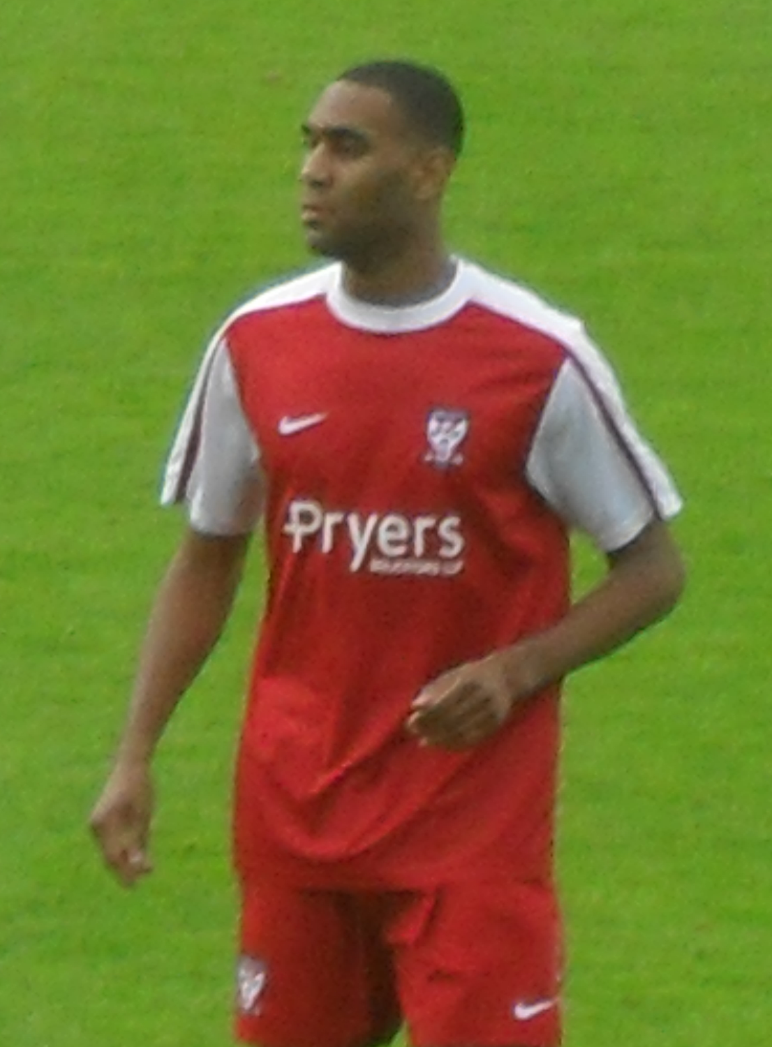 Leon Constantine